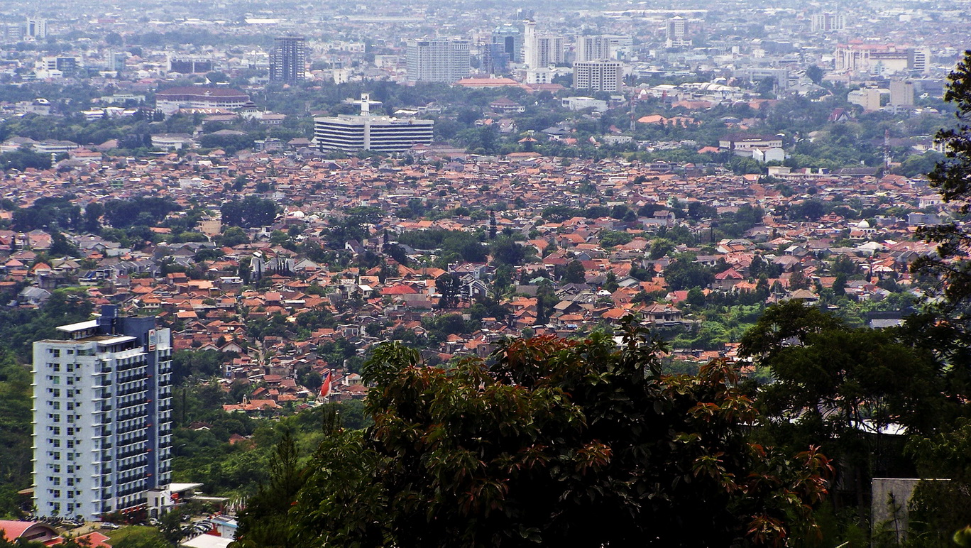 Some of Bandung area from Dago High Land, as we can see, alun-alun and asia afrika area. this only a part of Bandung Skyline, there is West, North, South and Eest area.